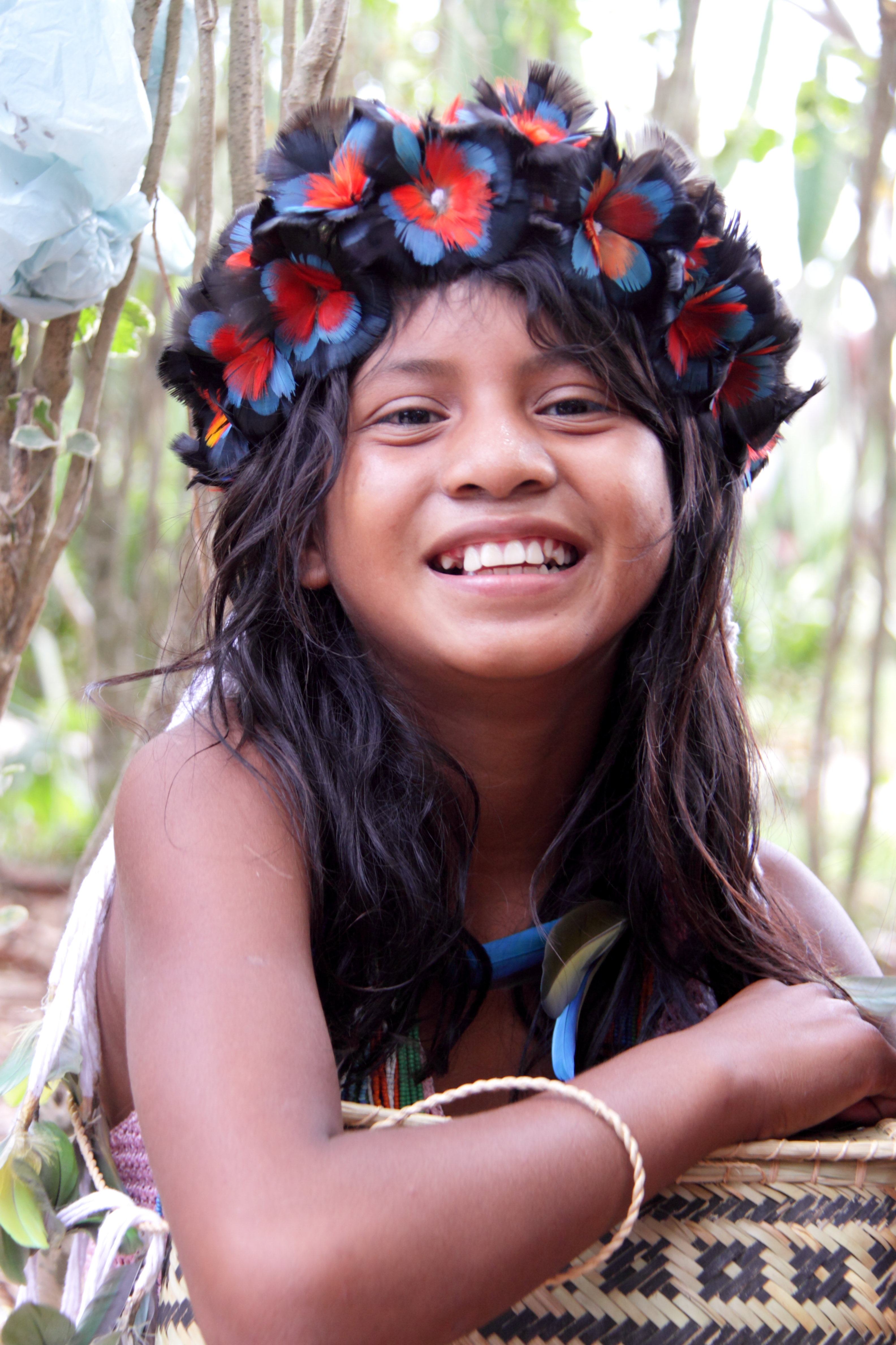 Young indian Pareci-Haliti from Mato grosso, Brazil, South America.